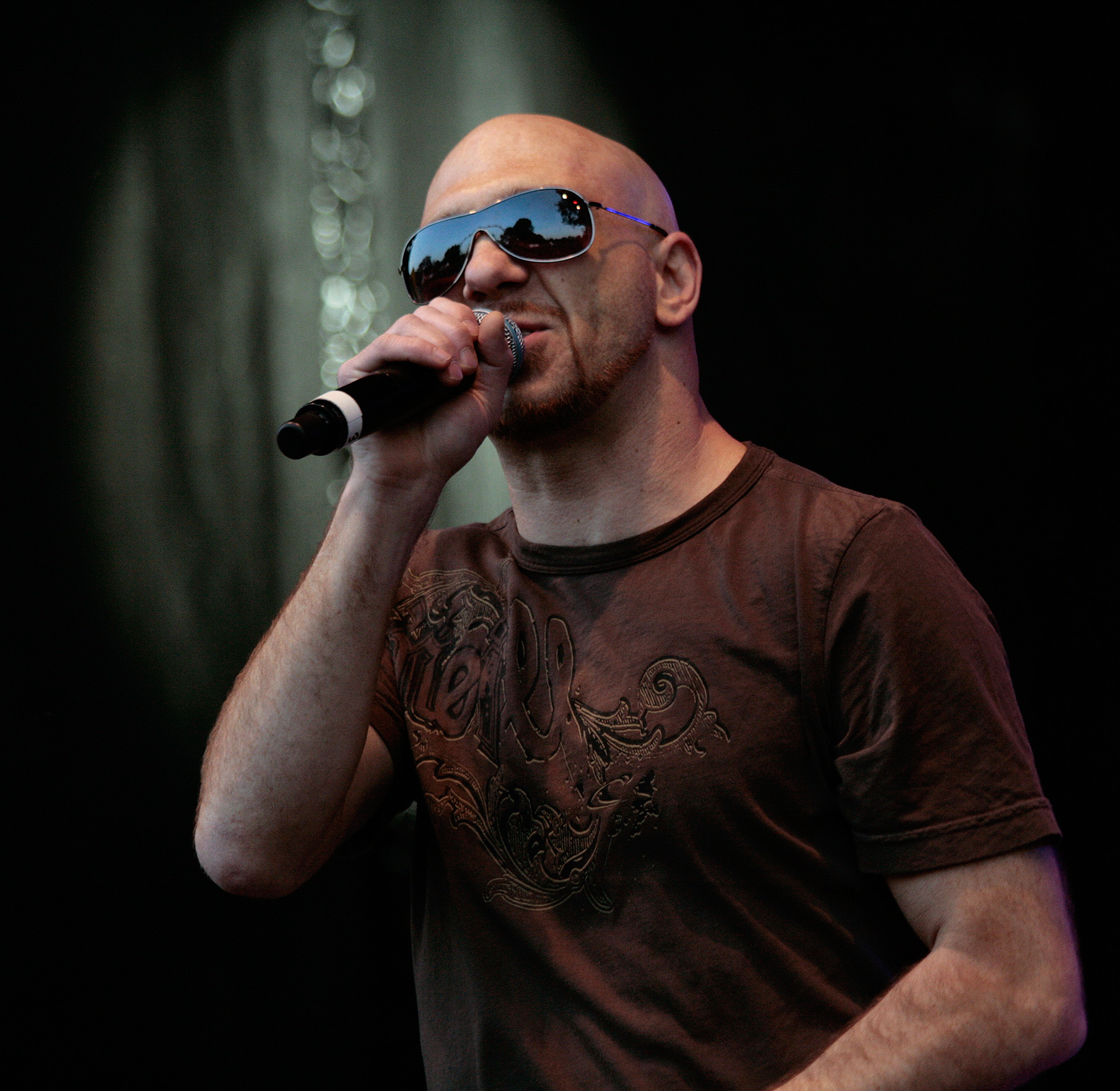 Roman Gregory, in concert with Claudia K.'s Woodstock Project at the Kaiserwiese (Prater, Vienna).